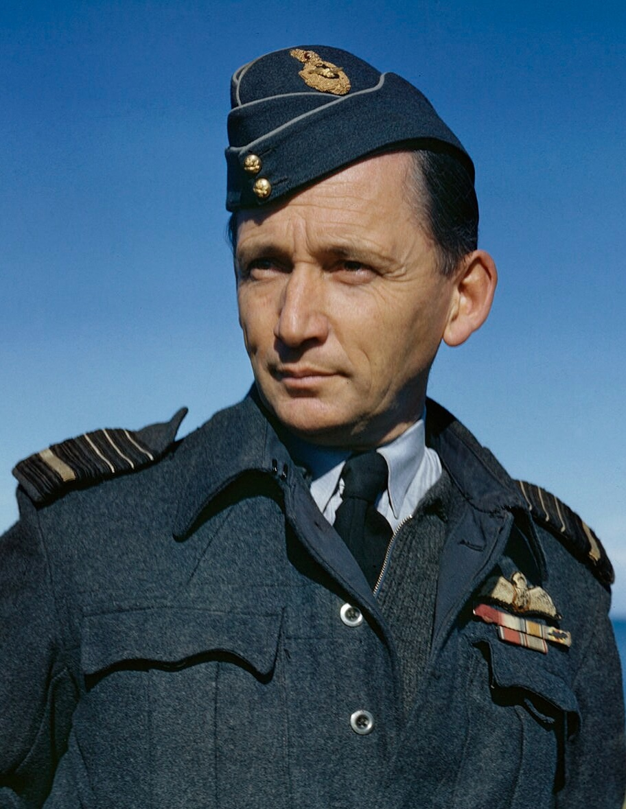 Air Chief Marshal Sir Arthur Tedder on the Italian coast. Later that month he returned to Britain to take up his appointment as Deputy Commander of the Allied Expeditionary Forces then being assembled for the cross-channel invasion.